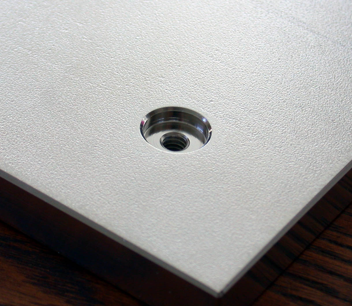 A counterbore on a hole, in a stainless steel plate.